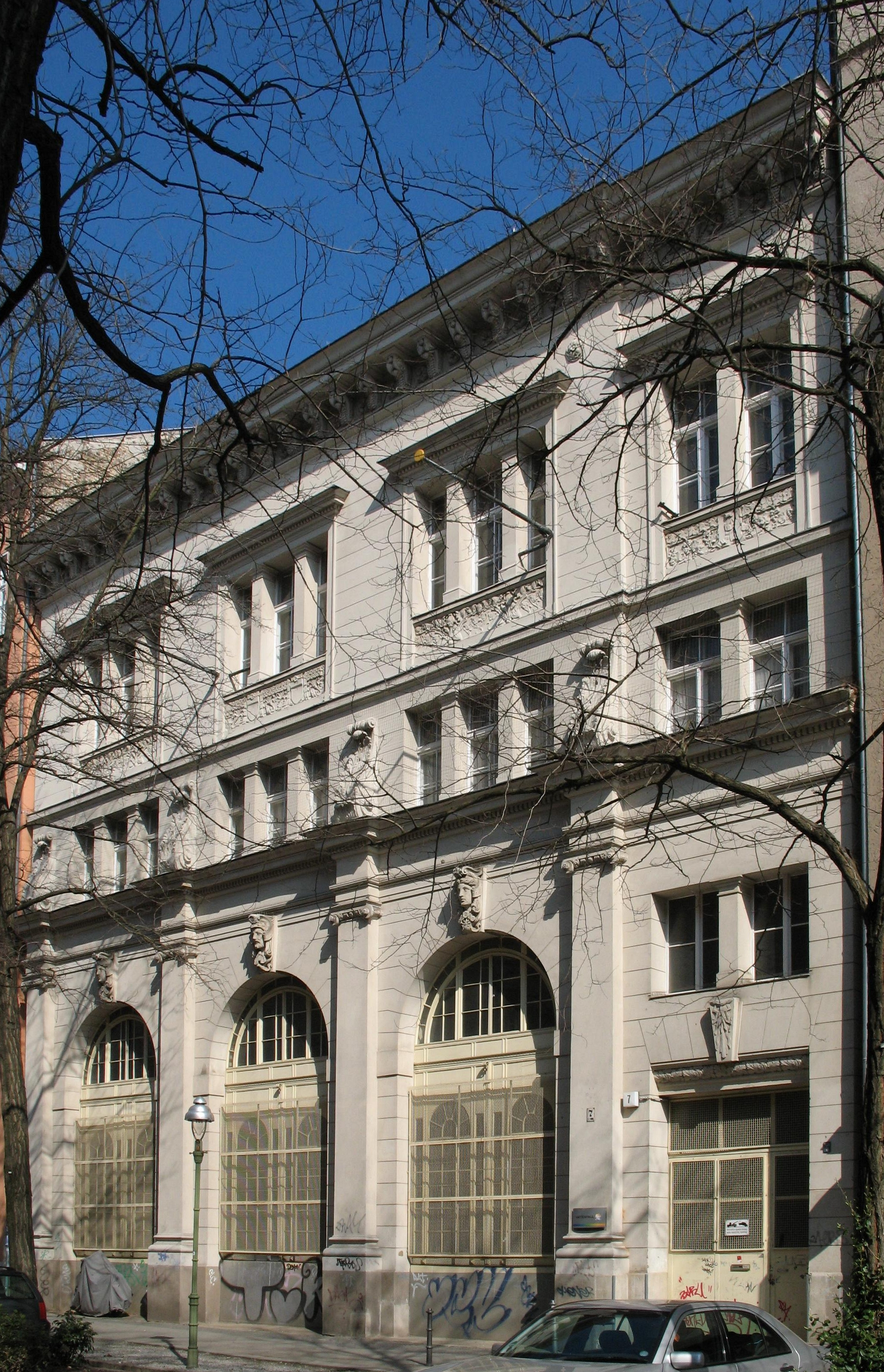 Electrical substation in Berlin-Moabit, Germany